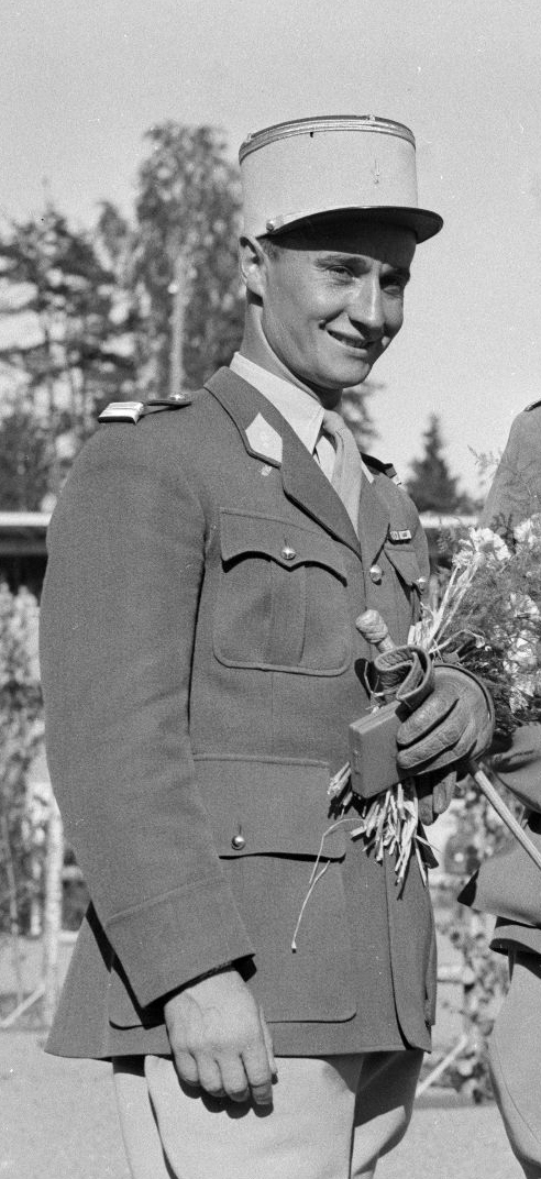 Photograph of the French medalist, equestrian Guy Lefrant (1923–1993) at Helsinki Olympic Games.